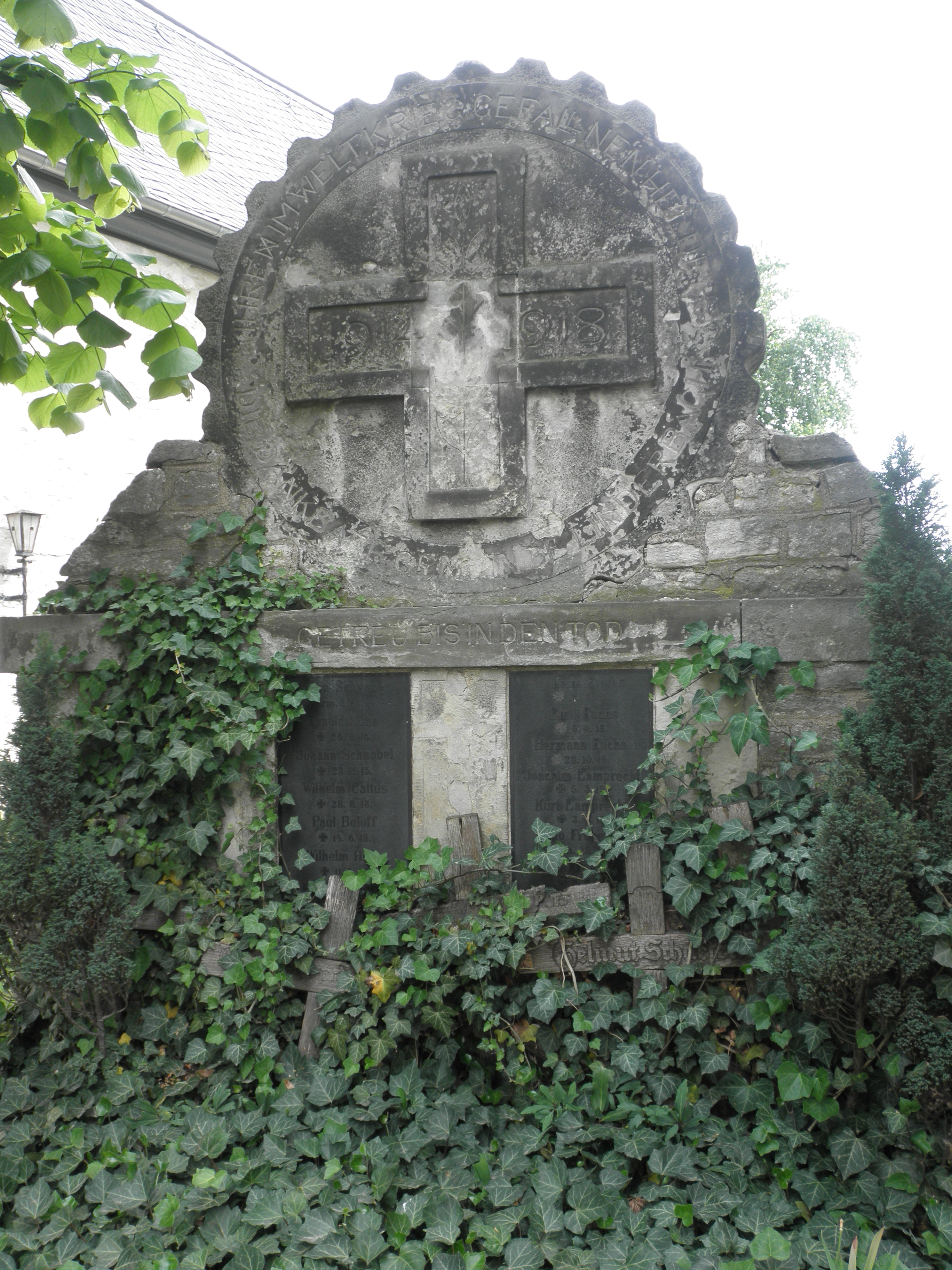 War Memorial in Erfurt-Linderbach in Thuringia